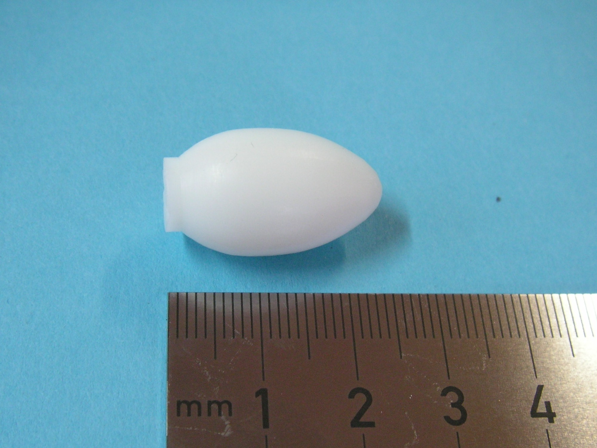 Suppository for vaginal use. Also called "Vaginal Ovula". normal weight: 3 grams.